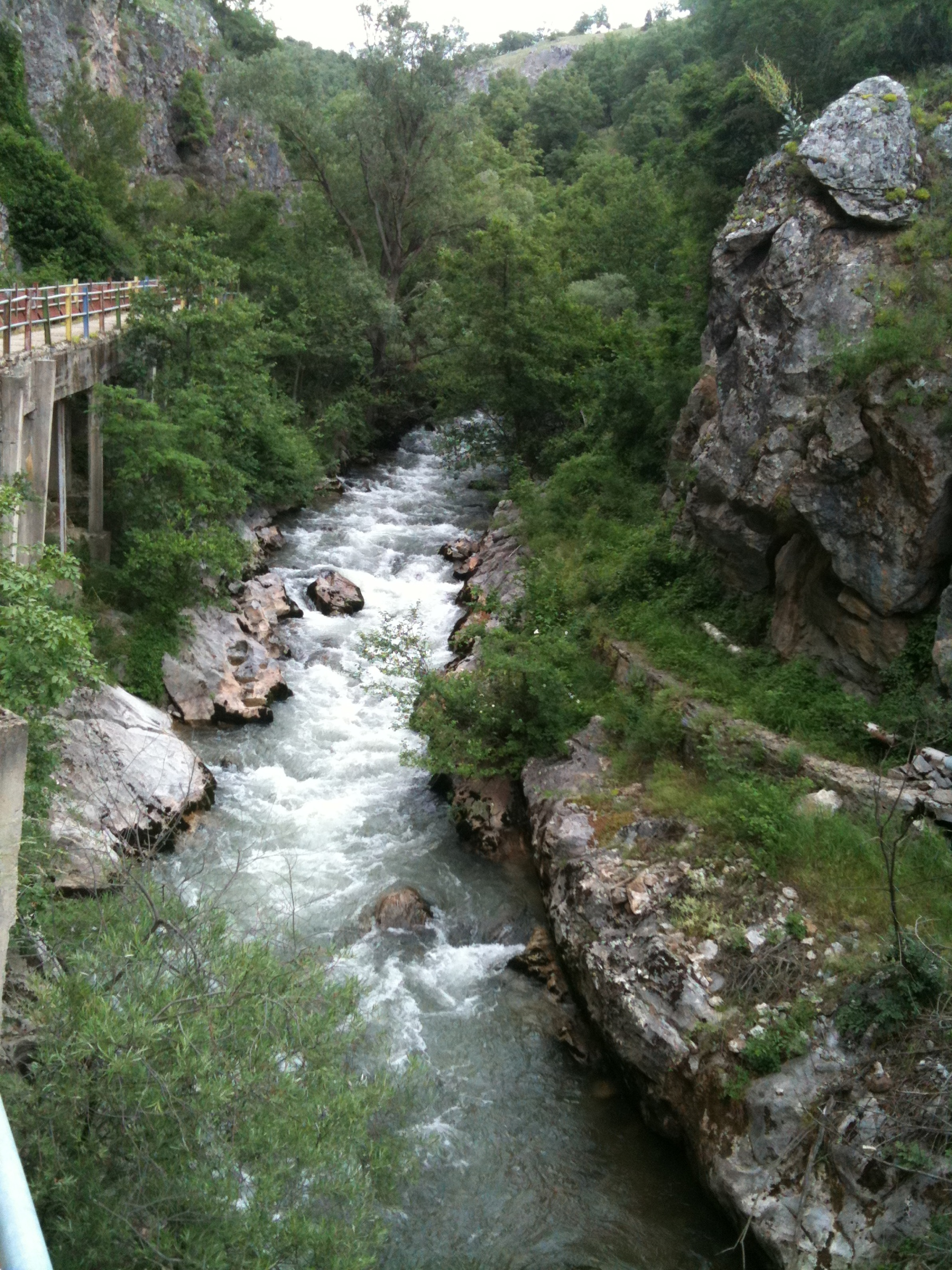 Ladopotamos river near Koromilia, Kastroria prefecture (Western Macedonia, Greece).